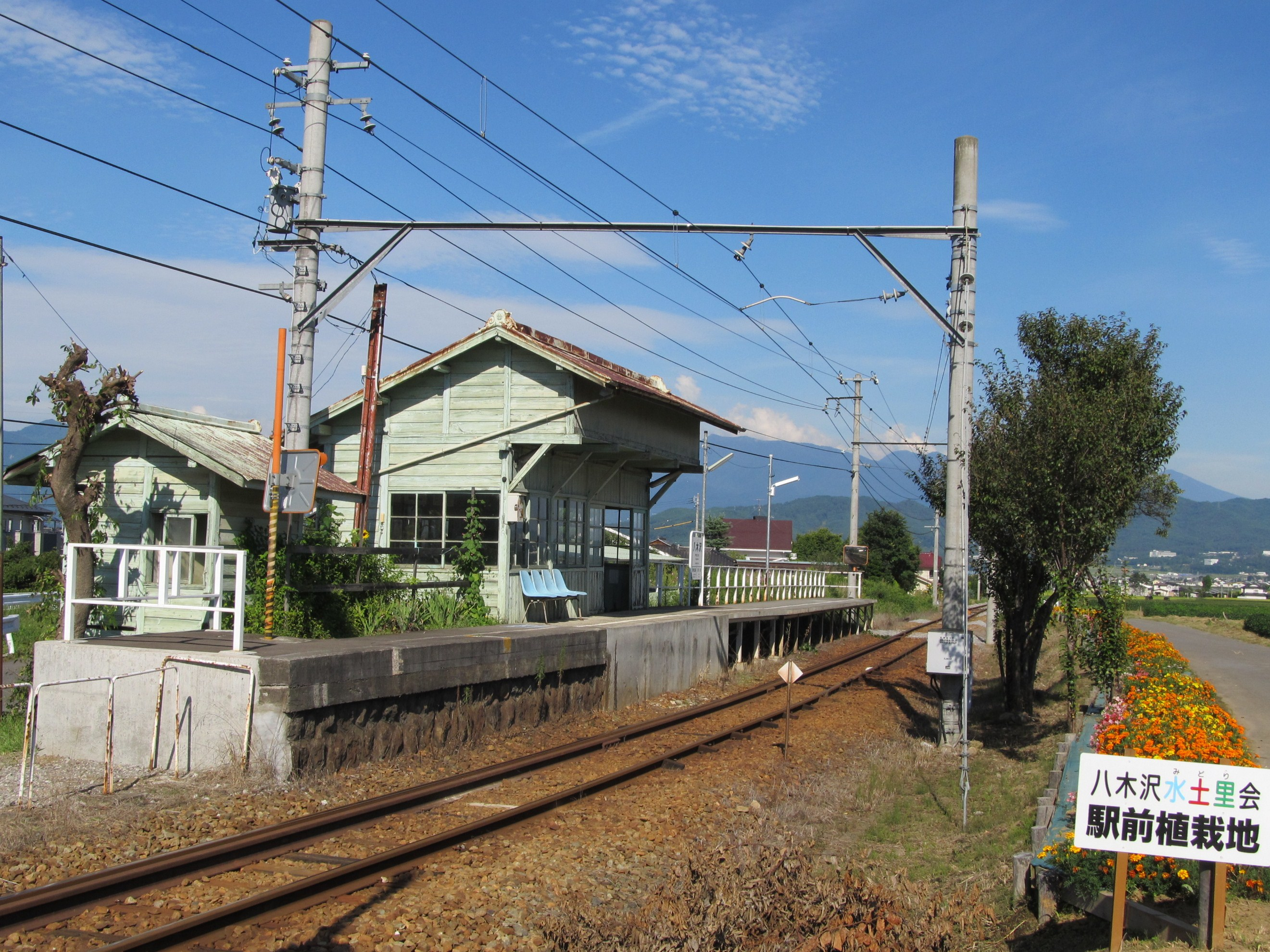 Ueda Electric Railway Bessho Line Yagisawa Station Platform